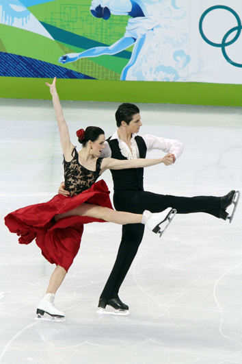 2010 Winter Olympics figure skating - Tessa Virtue and Scott Moir